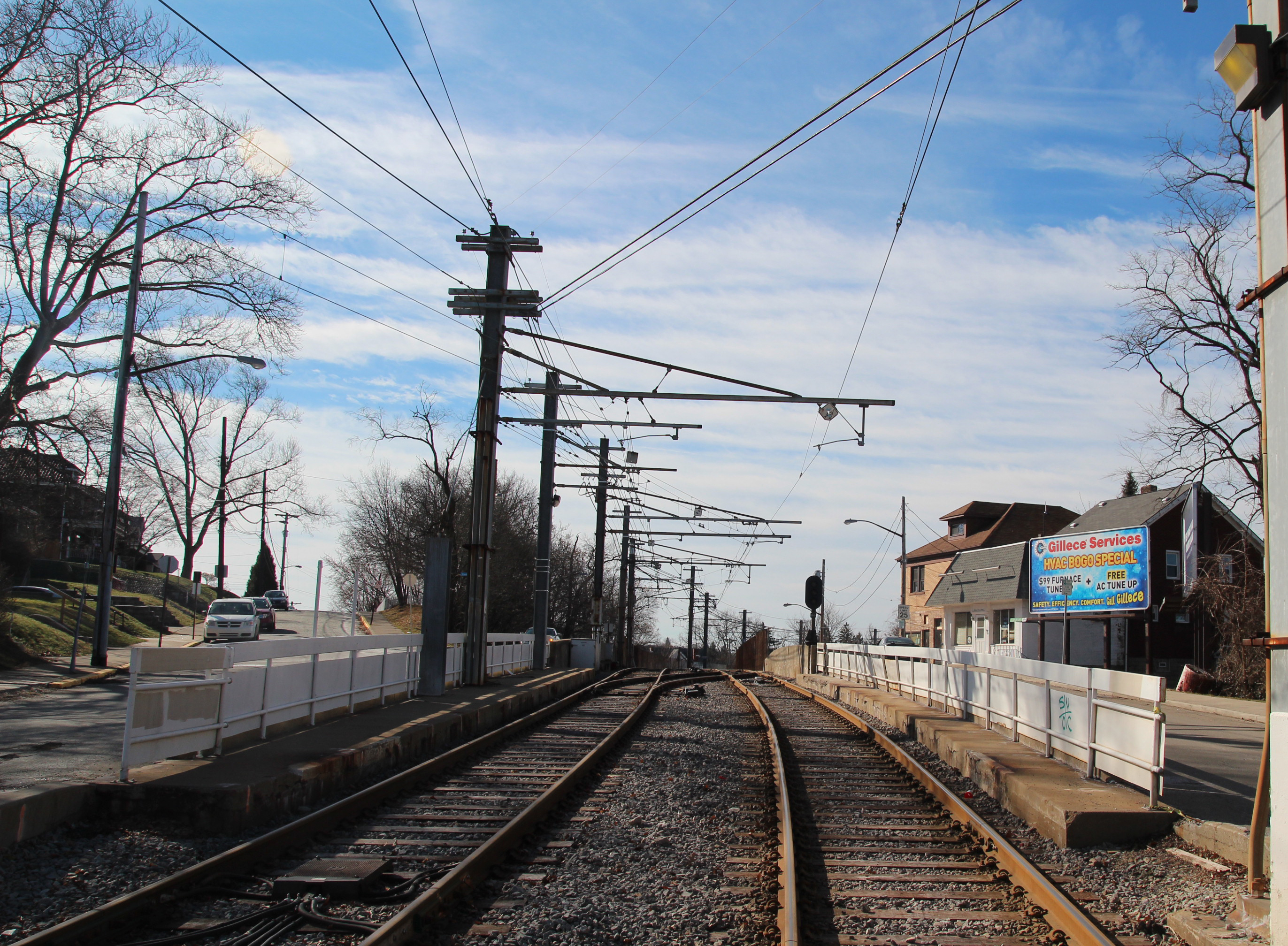 The former Neeld station on the Red Line, closed in 2012, as seen in 2017. It is essentially intact except for the station sign.